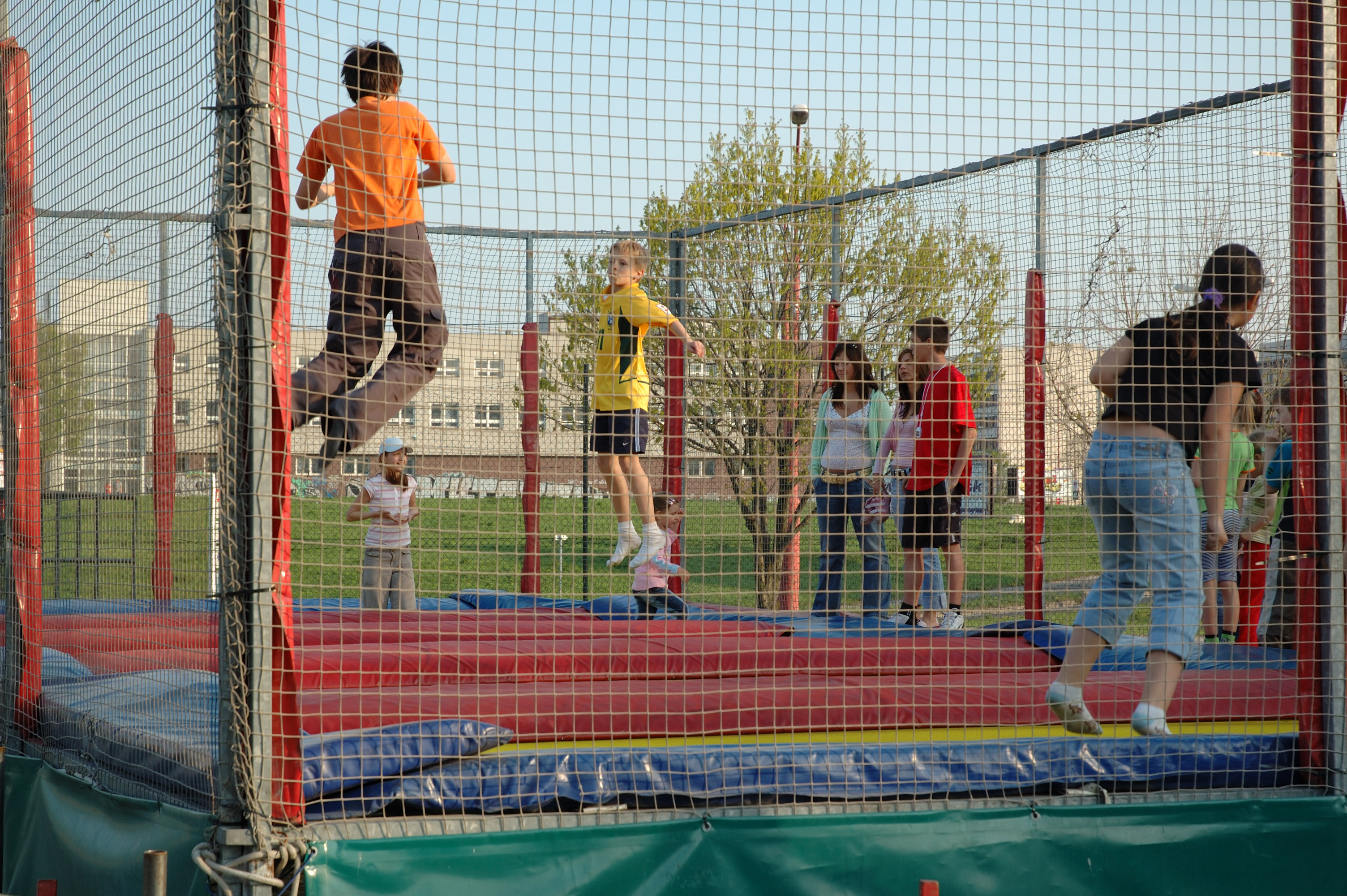 Playground nearby the lake Štrkovec in Bratislava, Slovakia. Author: Radovan Bahna, April 2006